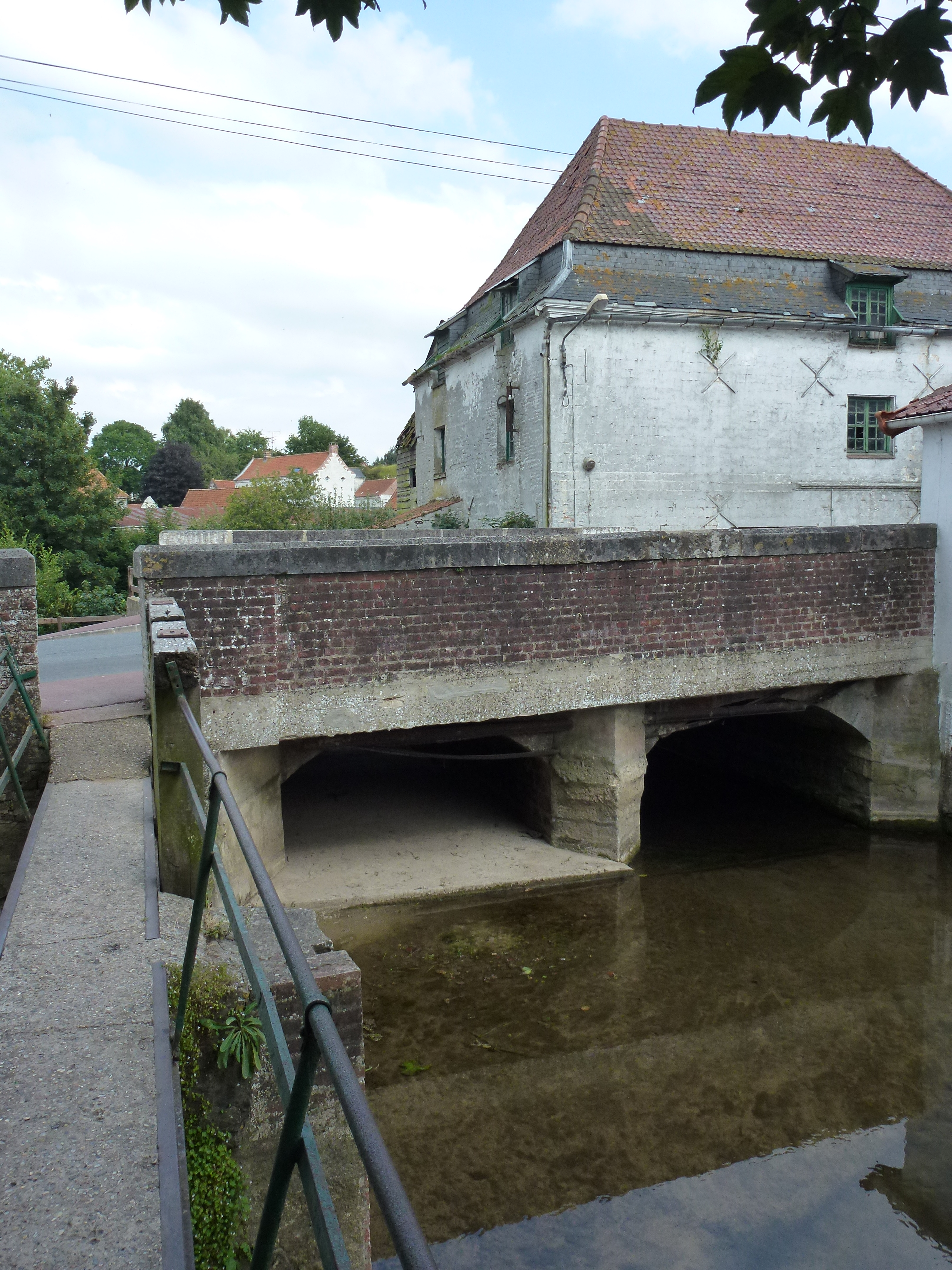 Tournehem-sur-la-Hem (Pas-de-Calais, Fr) moulin à eau sur la Hem